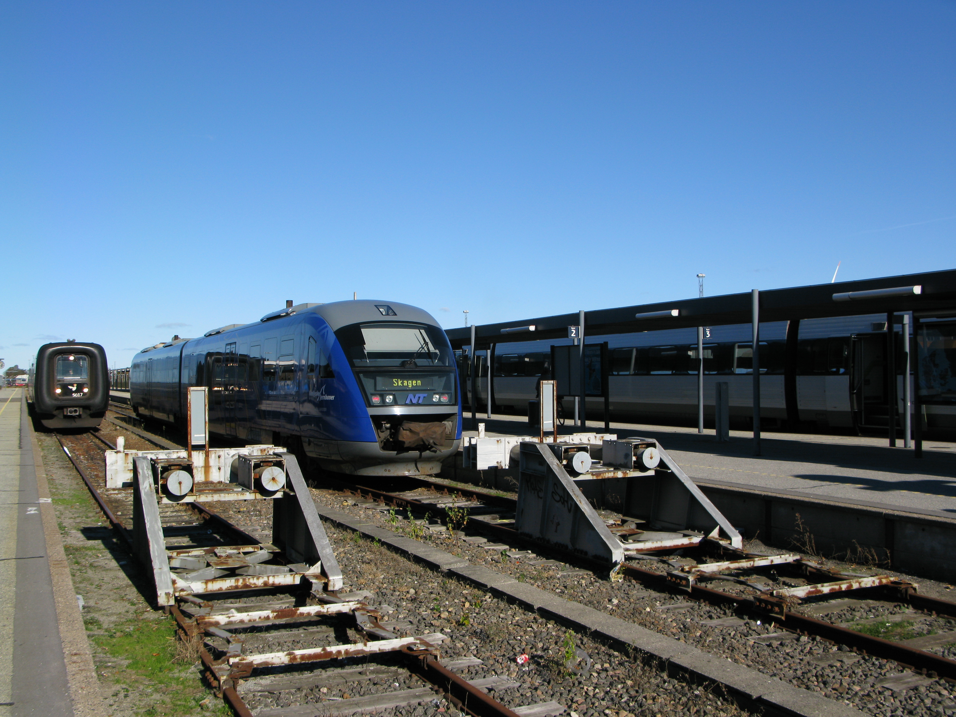 Train of "Nordjyske Jernbaner" in the train station of Frederikshavn, Denmark